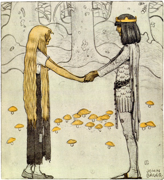 Illustration for " Prinsen utan Skugga " (The prince without shadow) by Jeanna Oterdahl in "Bland tomtar och troll" (Among gnomes and trolls), 1910.